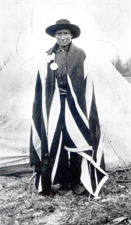 Image of Robert Fiddler, signer of Treaty 5 for Deer Lake East Ontario Canada